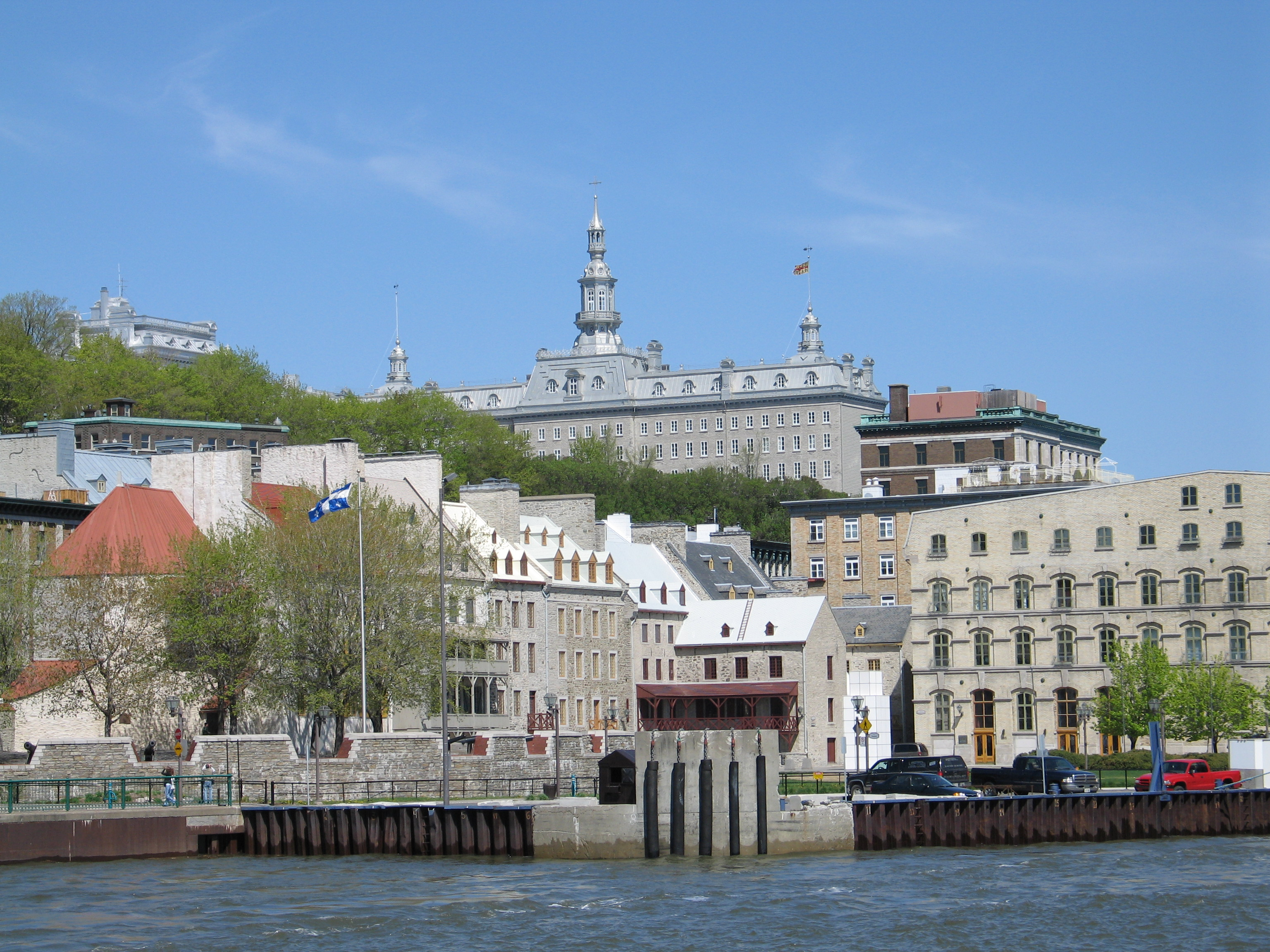 The old city of Quebec City, as seen from the Québec-Lévis ferry.In the background, the Séminaire de Québec.